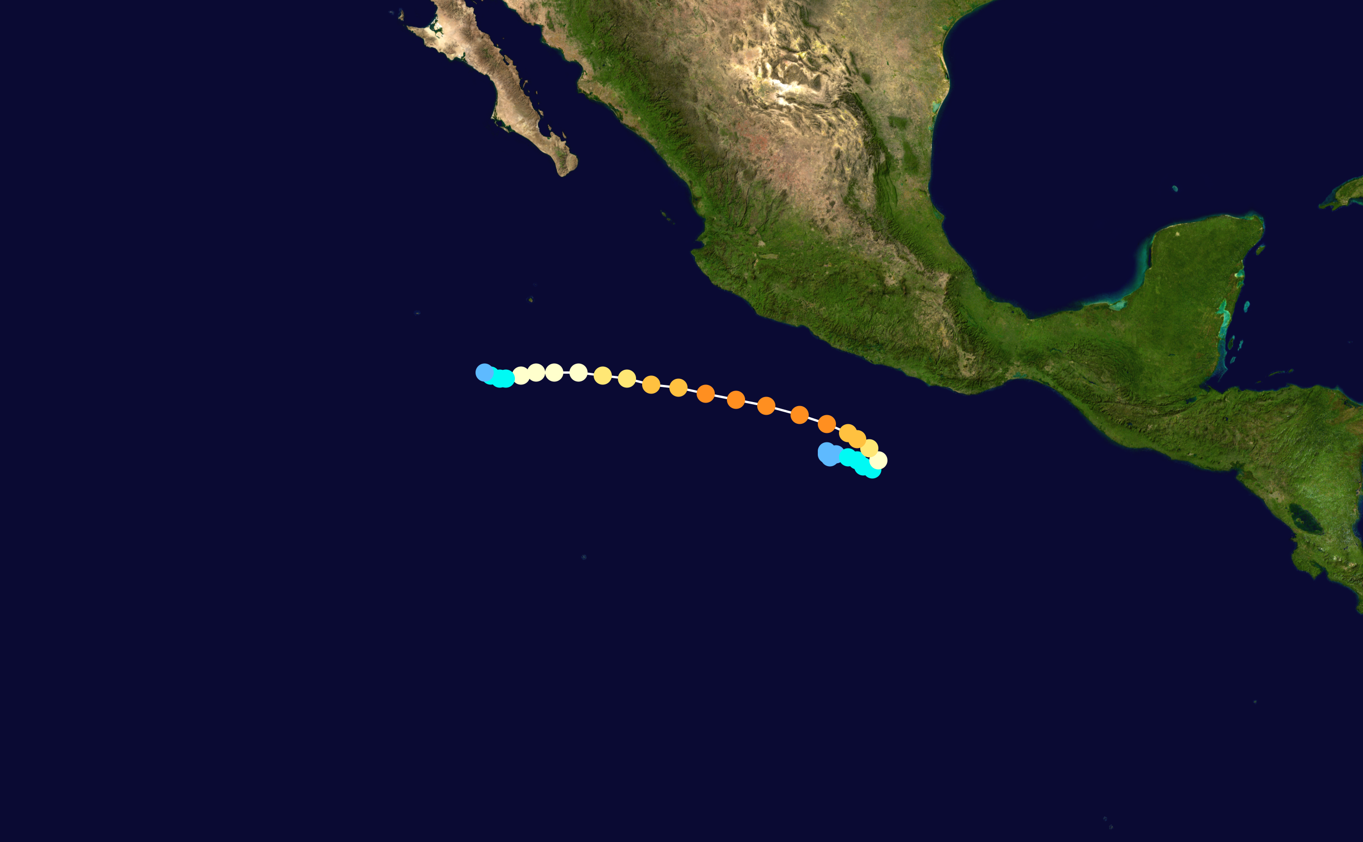 Hurricane Adolph (2001) track. Uses the color scheme from the Saffir-Simpson Hurricane Scale.